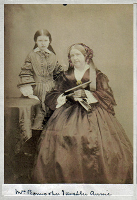 Anna Kingsford (1846–1888), née Bonus, and her mother, Elizabeth Ann Bonus (1805–1888), née Schröder, when Kingsford was around eleven